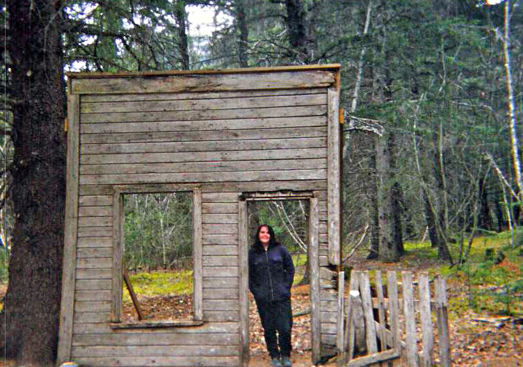 A woman standing in front of the only remaining structure in the ghost town of Dyea, Alaska